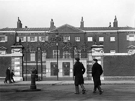 The entrance facade and gates of Devonshire House.